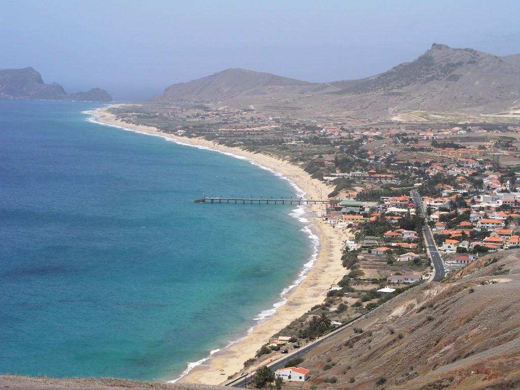 View of Porto Santo, with Vila Baleira in the foreground.